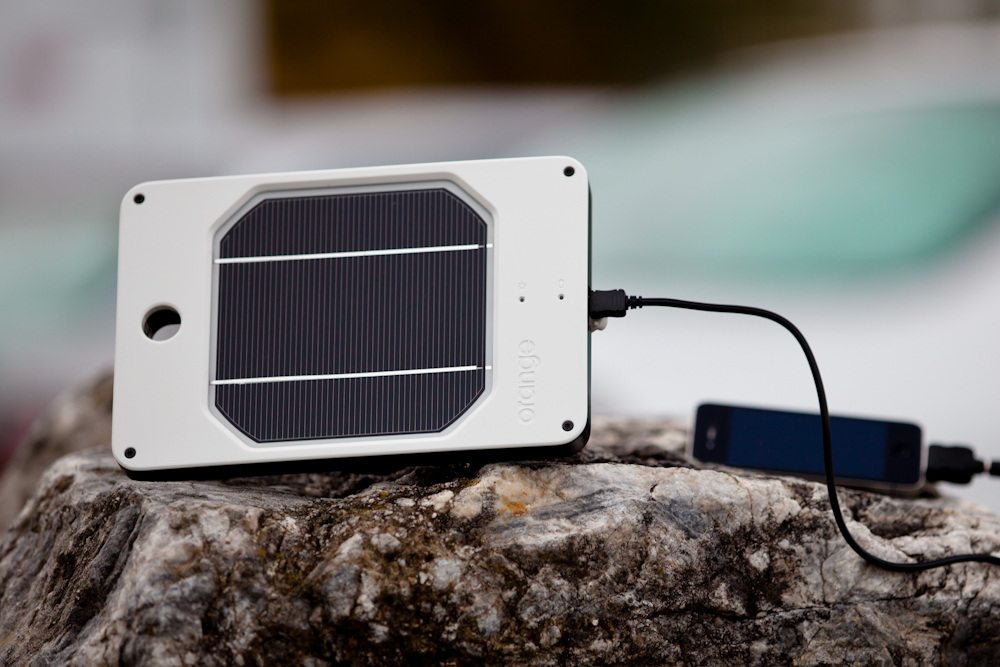 The JOOS Orange personal solar charger, manufactured by SolarJOOS, shown here in use in Santa Cruz, California